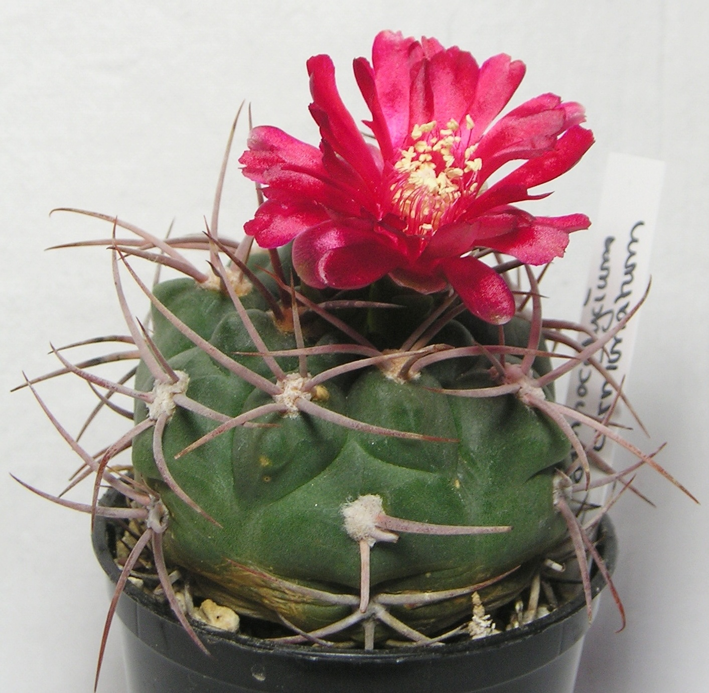 Gymnocalycium oenanthemum Creative Commons Licence BY 2.0 Quellenangabe / Credit: Photo by Maja Dumat